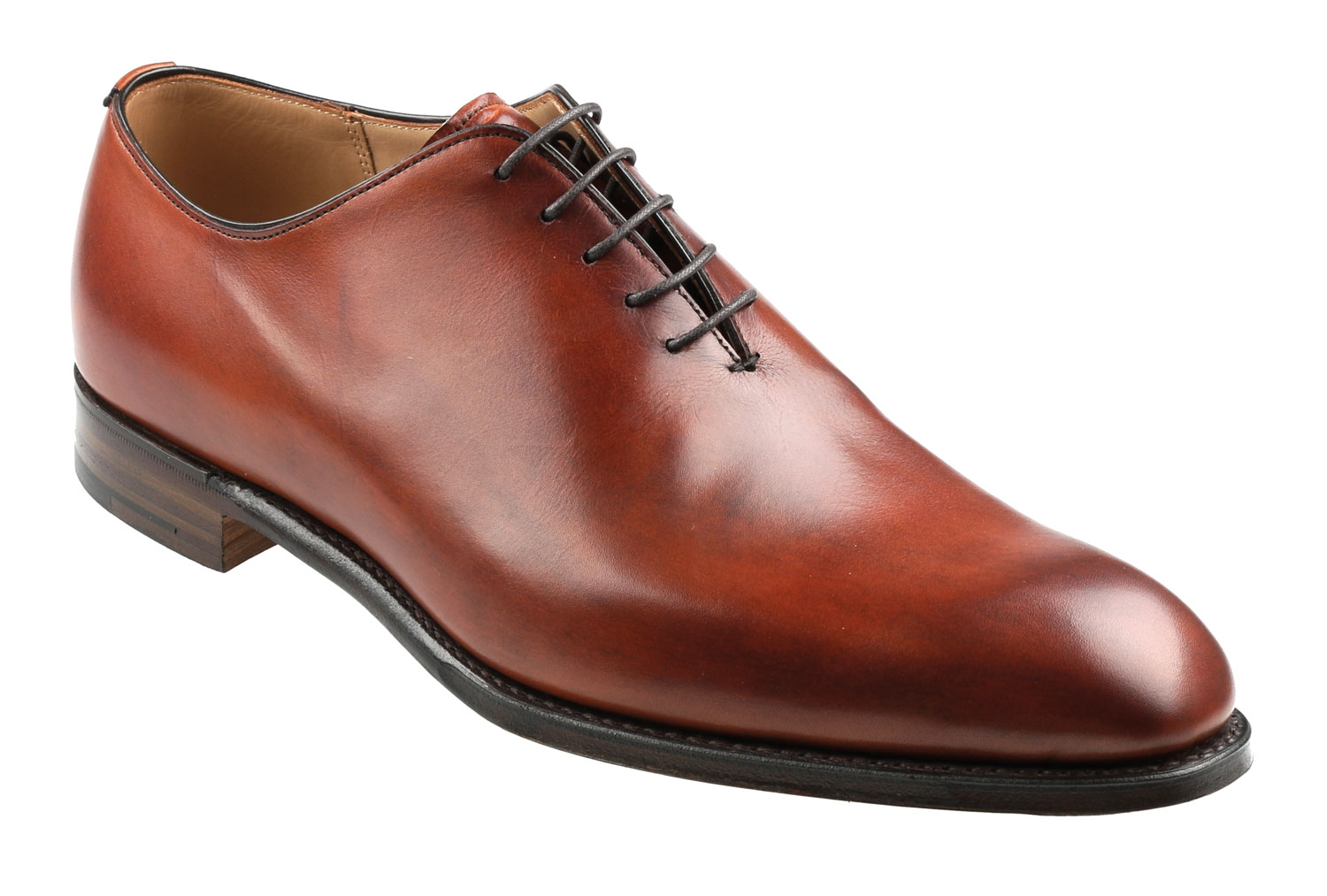 Whole-cut shoe